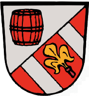 Wappen von Salzweg, coat of arms of the municipality Salzweg, Bavaria, Germany